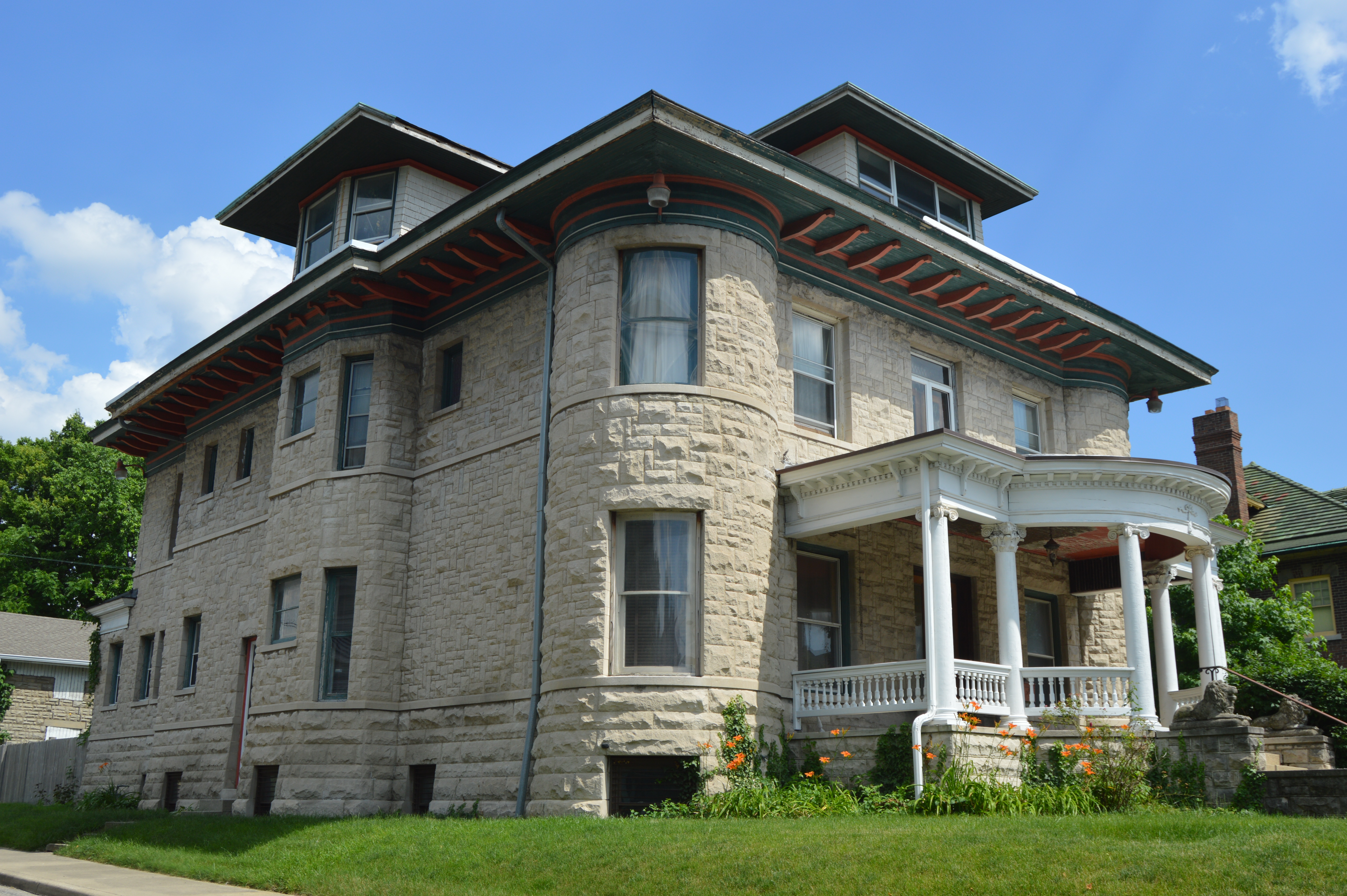 Front and northern side of the Willard and Josephine Hubbard House, located at 1941 N. Delaware Street in Indianapolis, Indiana, United States. Built in 1903, it is listed on the National Register of Historic Places, and it is part of a Register-listed historic district, the Herron-Morton Place Historic District.